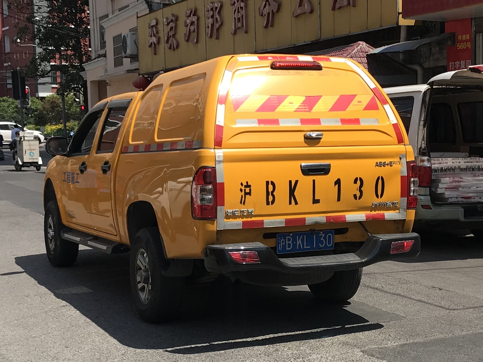 Higer Longwei rear